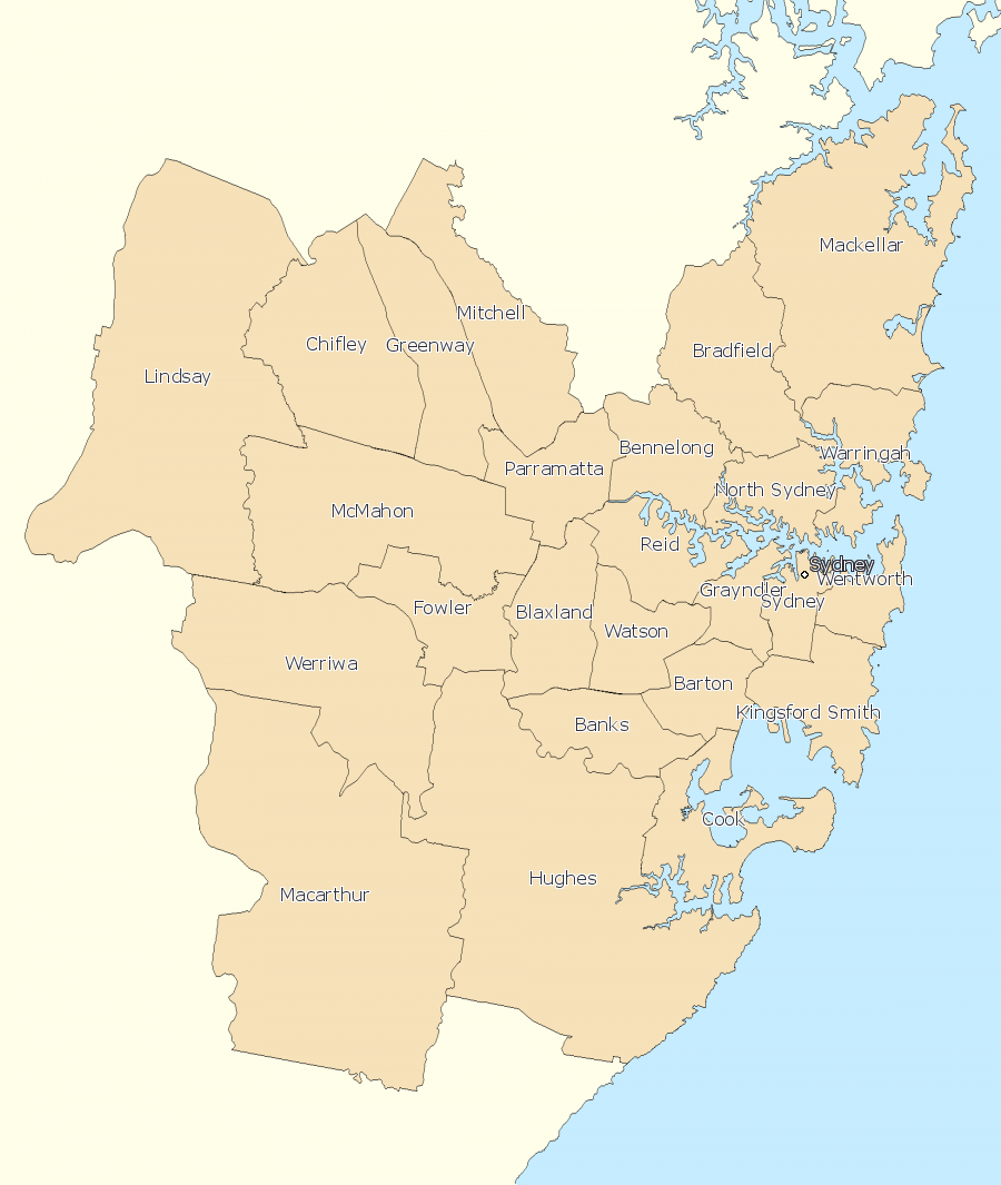 Incorporates or developed using Administrative Boundaries ©PSMA Australia Limited licensed by the Commonwealth of Australia under Creative Commons Attribution 4.0 International licence (CC BY 4.0). Derived from State and Territory Boundaries from the Australian Bureau of Statistics under Creative Commons Attribution 2.5 Australia license (CC BY 2.5 AU)